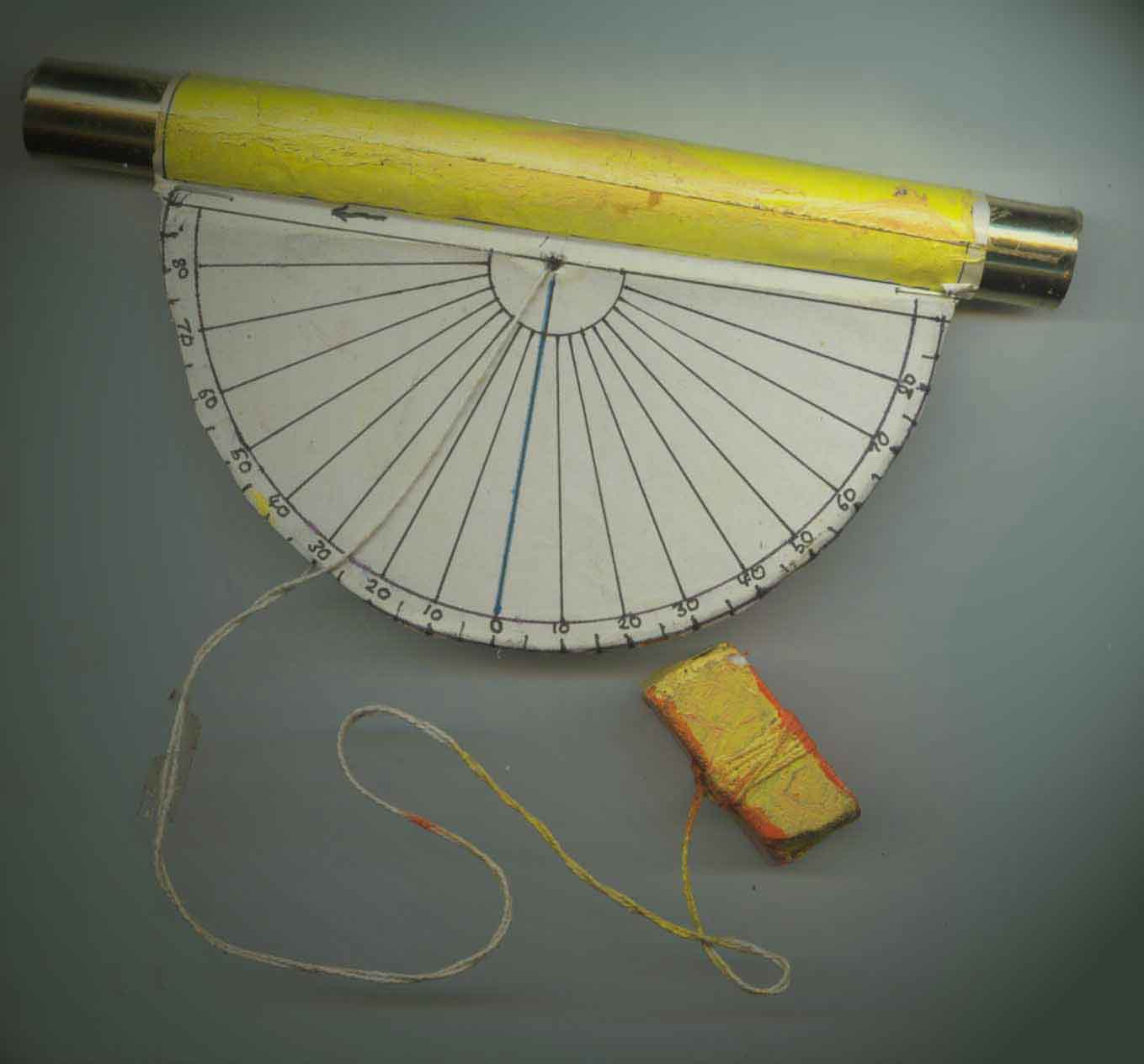 A hand made inclinometer